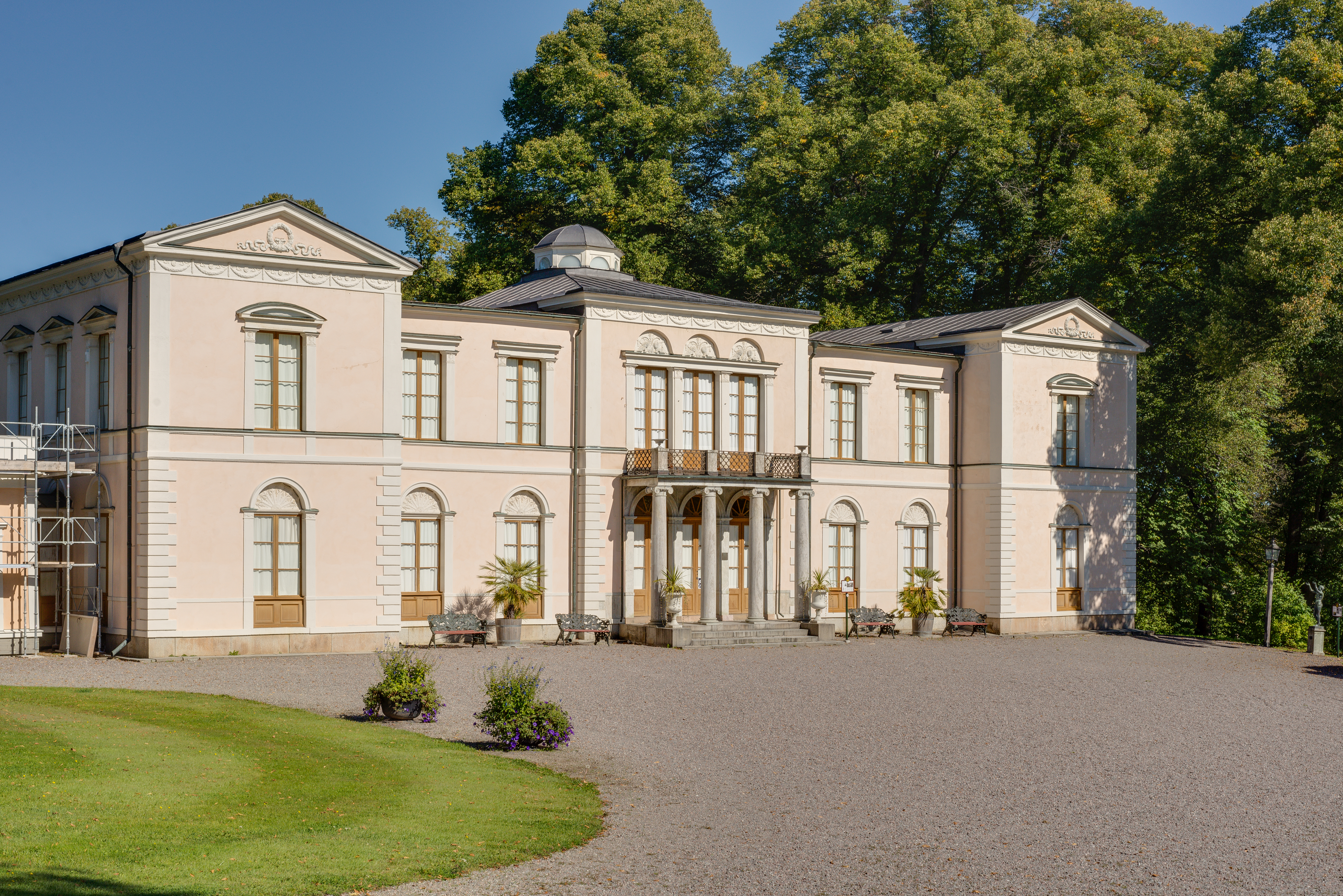 Rosendals slott.